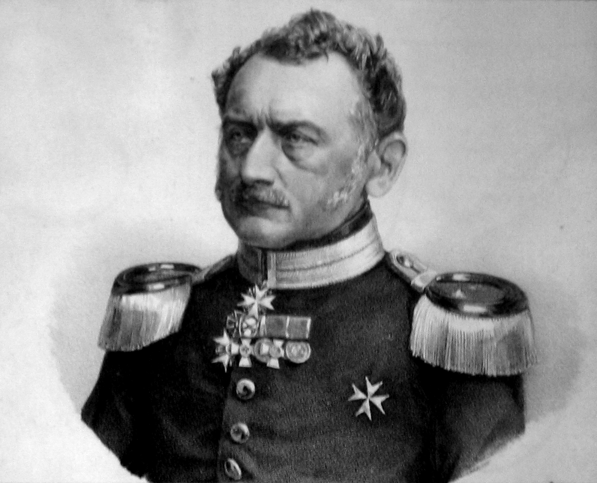 This image (or other media file) is in the public domain because its copyright has expired. This applies to Australia, the European Union and those countries with a copyright term of life of the author plus 70 years. You must also include a United States public domain tag to indicate why this work is in the public domain in the United States. Note that a few countries have copyright terms longer than 70 years: Mexico has 100 years, Colombia has 80 years, and Guatemala and Samoa have 75 years, Russia has 74 years for some authors. This image may not be in the public domain in these countries, which moreover do not implement the rule of the shorter term. Côte d'Ivoire has a general copyright term of 99 years and Honduras has 75 years, but they do implement the rule of the shorter term. This file has been identified as being free of known restrictions under copyright law, including all related and neighboring rights.